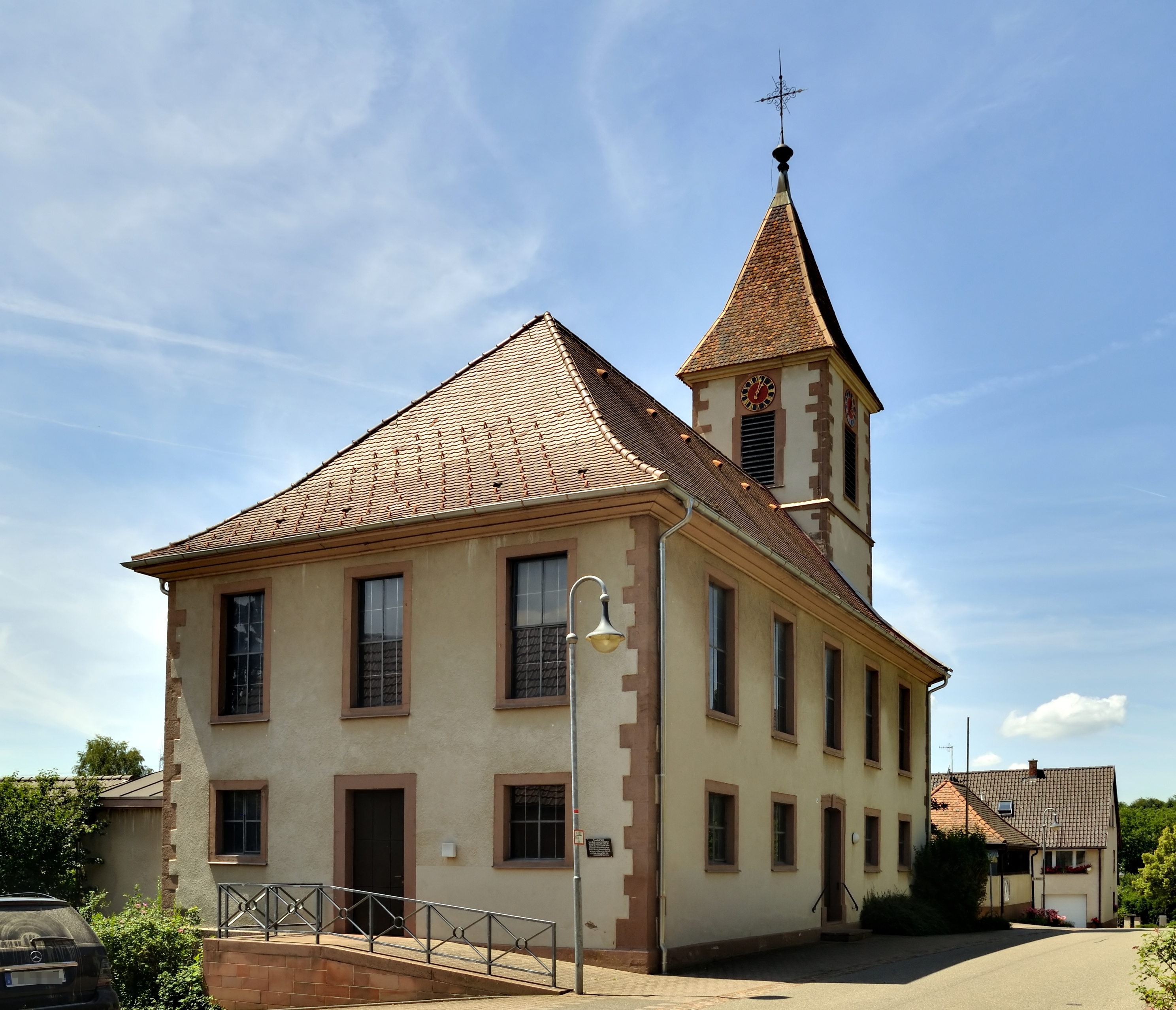 Bad Bellingen-Hertingen: Protestant Church